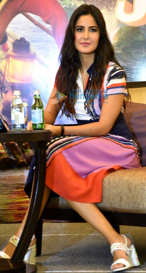 Katrina Kaif snapped on (01 July 2017) at SIIMA awards in Abu Dhabi.